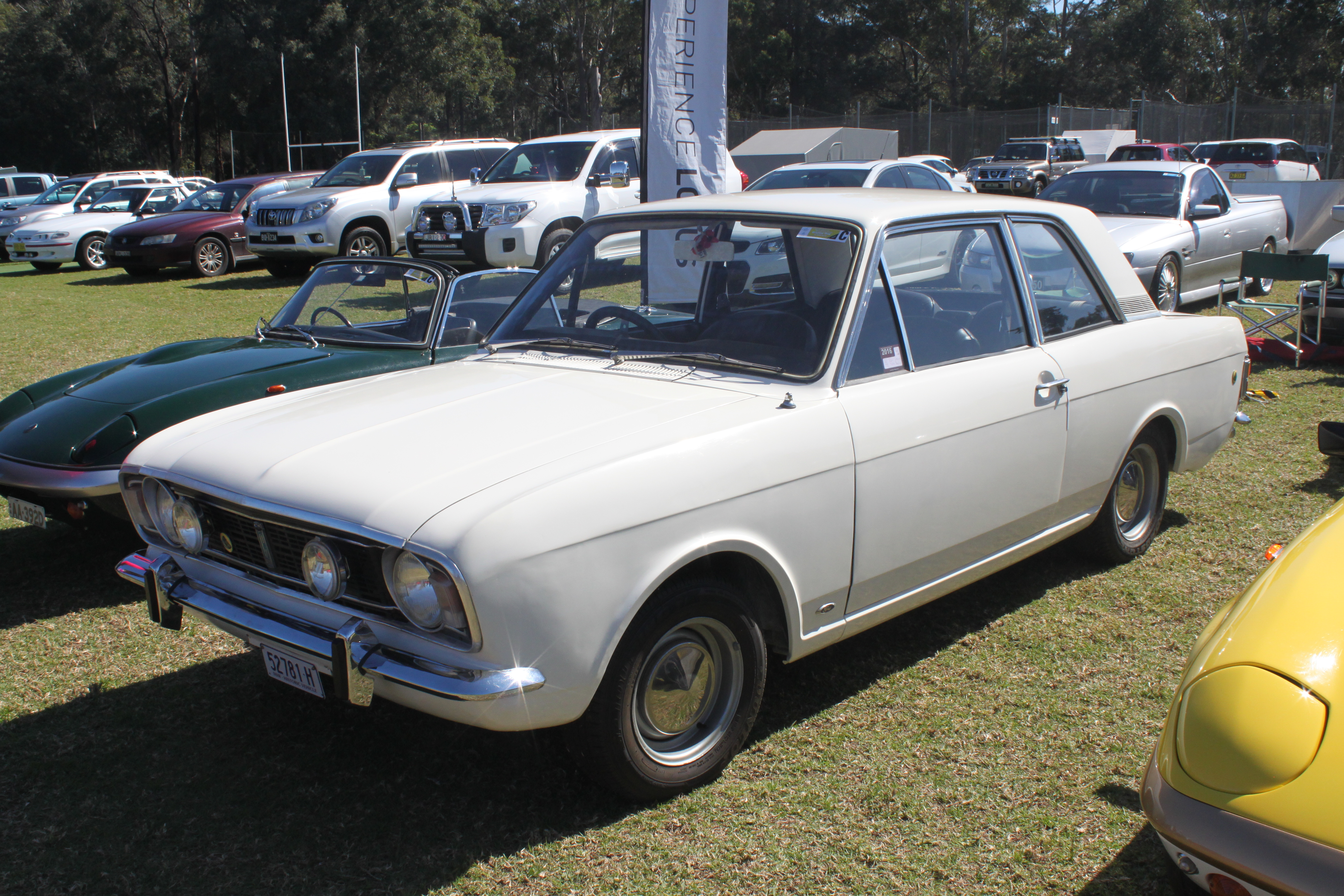 All British Day, Kings School, North Parramatta, NSW August 2015